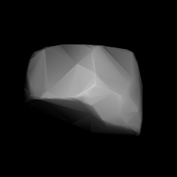 3D convex shape model of 1236 Thaïs, computed using light curve inversion techniques. J. Hanuš, J. Ďurech, M. Brož, B. D. Warner (June 2011). "A study of asteroid pole-latitude distribution based on an extended set of shape models derived by the lightcurve inversion method". Astronomy and Astrophysics 530: A134. ISSN 0004-6361. arXiv